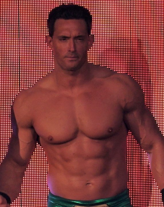 Tino Sabbatelli entering the arena at Axxess 2018.